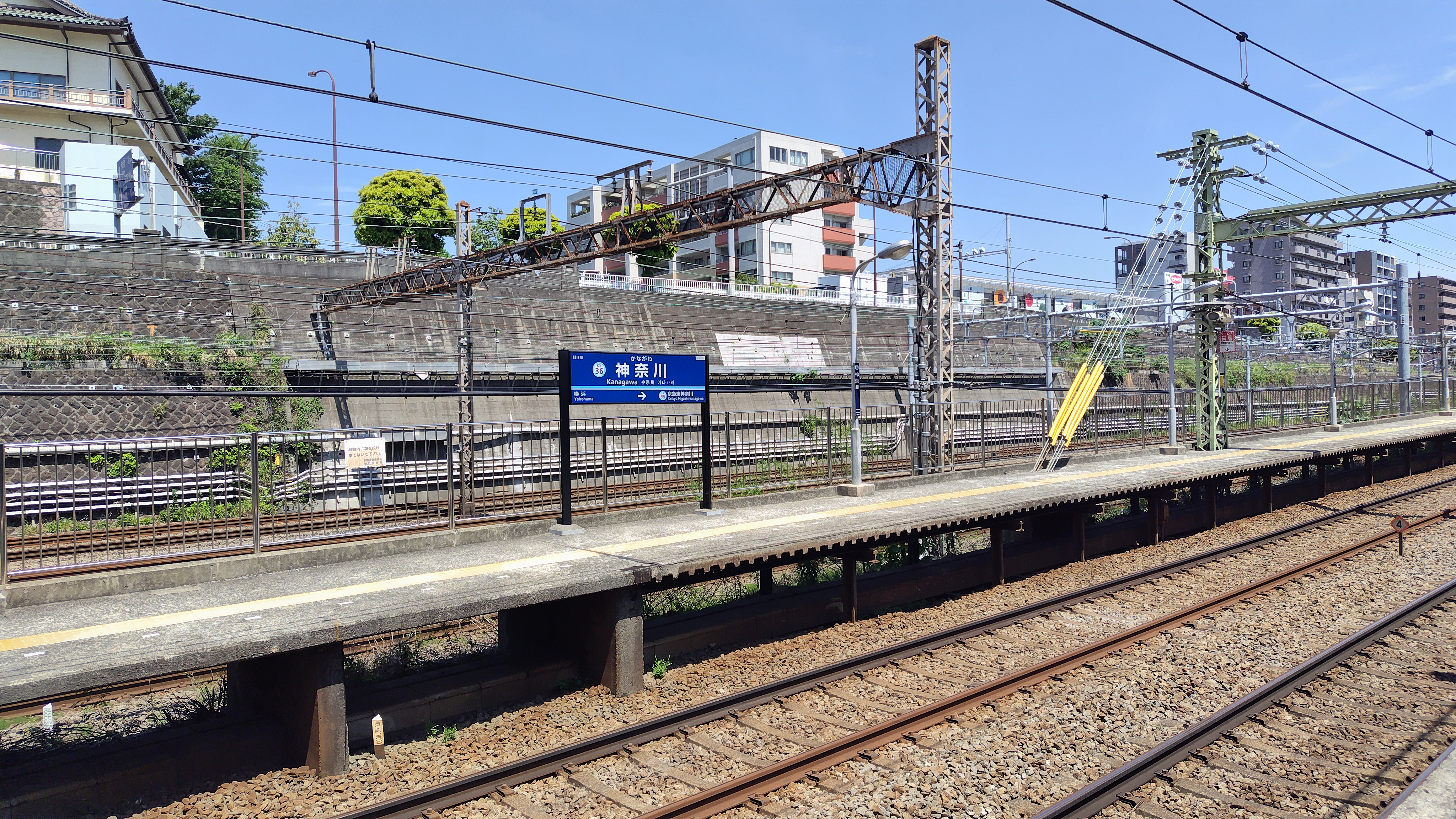 Kanagawa Station in Yokohama, Japan